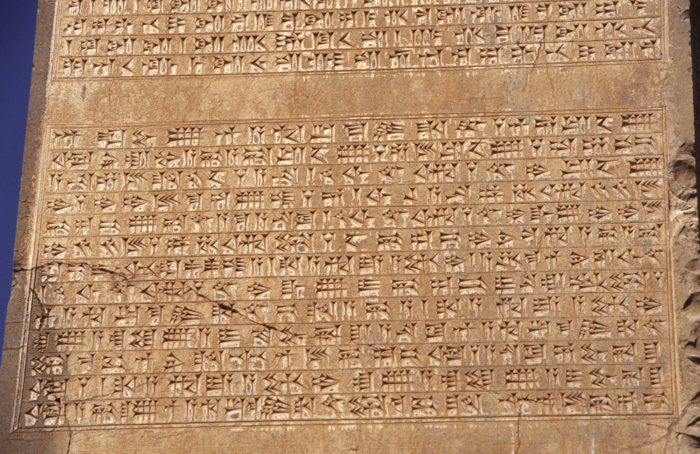 Babylonian version of the Achaemenid royal inscriptions known as XPc (Xerxes Persepolis c) from the western anta of the southern portico of the so-called Palace of Darius (building I) at Persepolis.